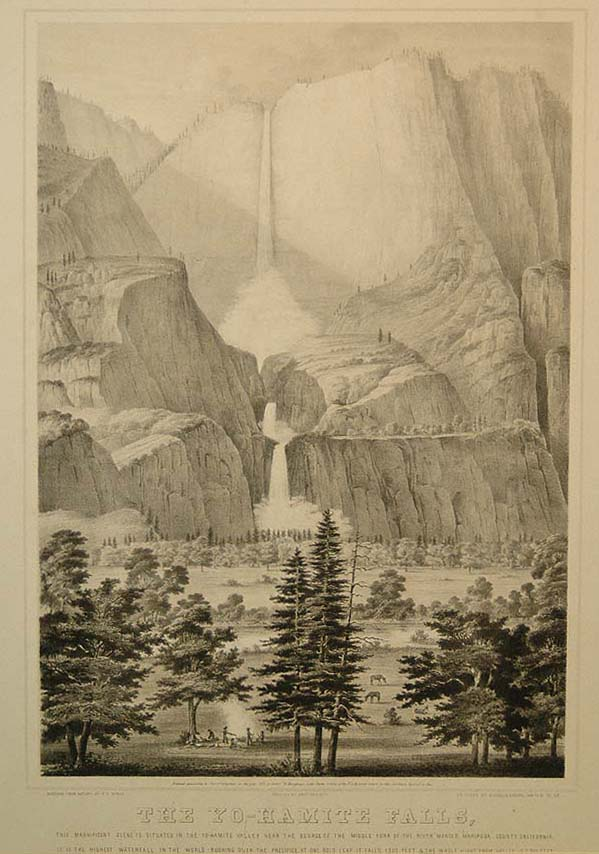 The lithograph of the Thomas Ayres "High Falls" drawing was the first published image of Yosemite Valley. James Hutchings had this lithograph created after he returned to San Francisco from his trip to Yosemite with Thomas Ayres. Britton & Rey of San Francisco printed the lithograph in October of 1855.